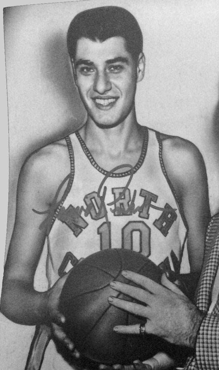 American basketball player Lennie Rosenbluth during his tenure on North Carolina.